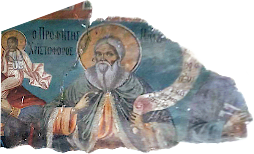 Assumption of Mary Church in Pistiko Fresco